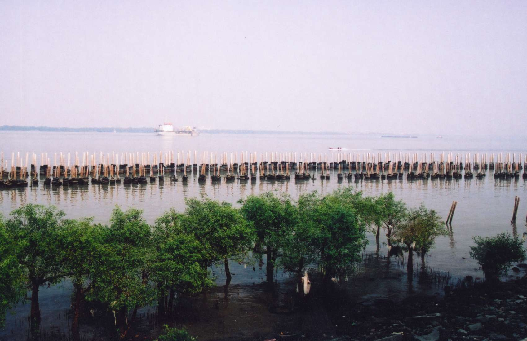 Mouth of the Chao Phraya river in Samut Prakan province, Thailand. View from the Chulalomklao fort. Photo taken by User:Ahoerstemeier on January 17 2005.